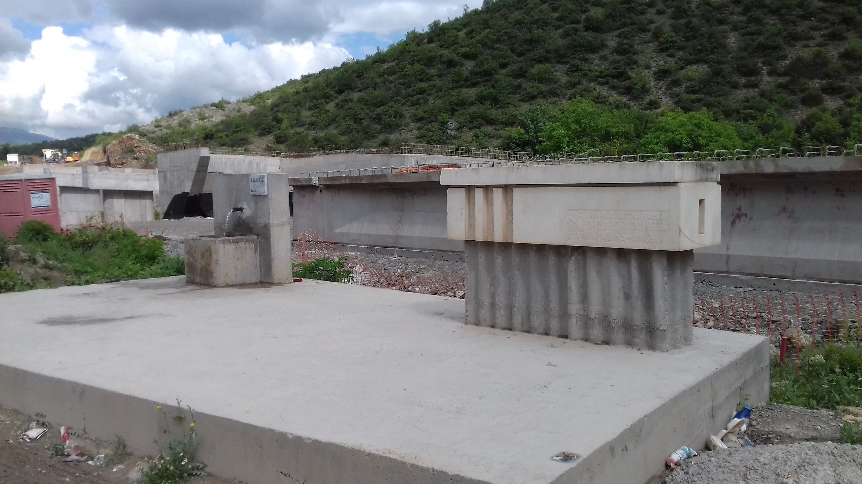 Pere Toshev's memorial in Drenovo gorge, Macedonia